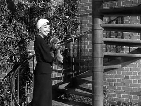 Screenshot of Audrey Hepburn from the trailer for the film Sabrina (1954 film)